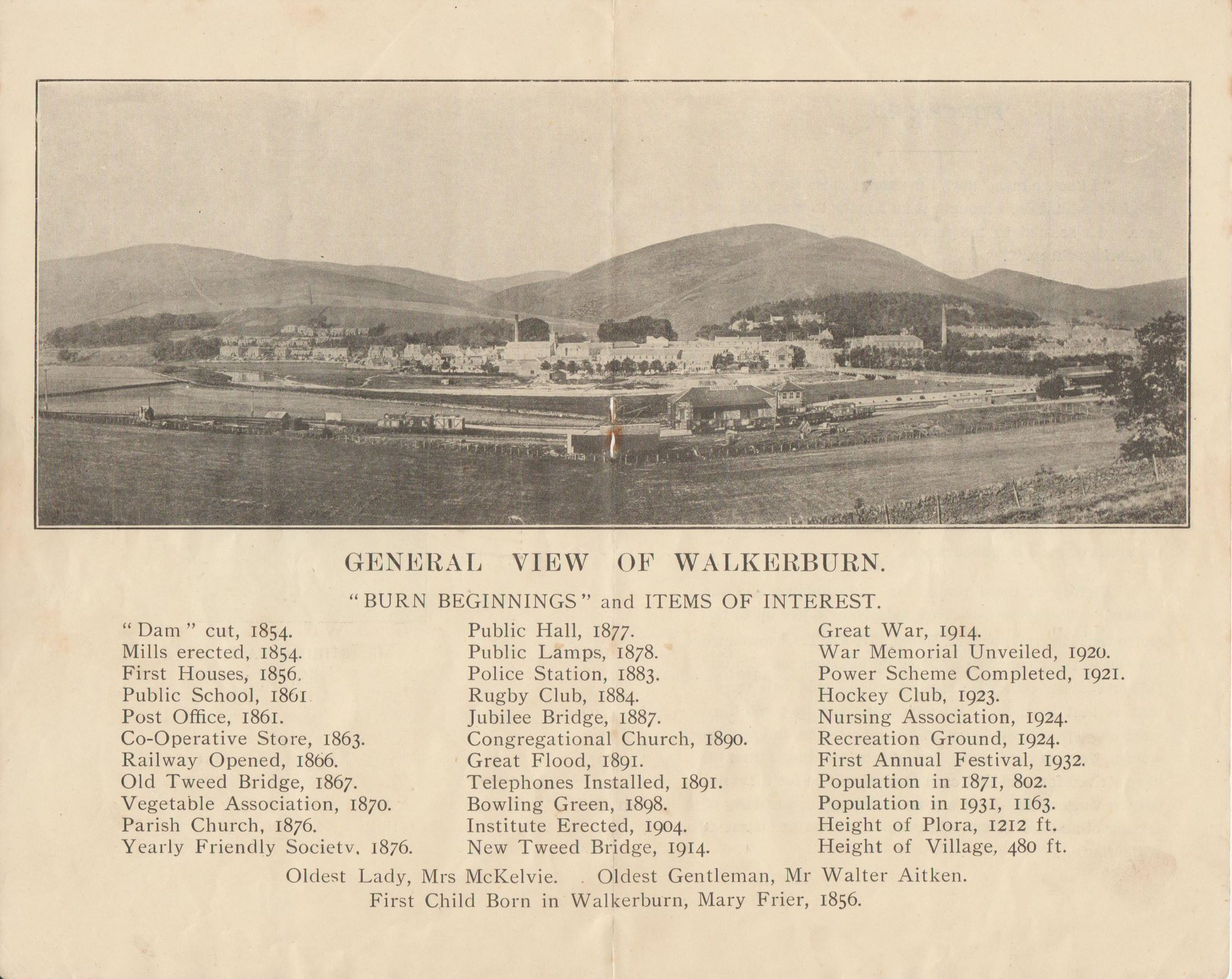 Centre page from The Seventh Walkerburn Festival (1939), Souvenir and Programme recording major events in history of Walkerburn through 1932